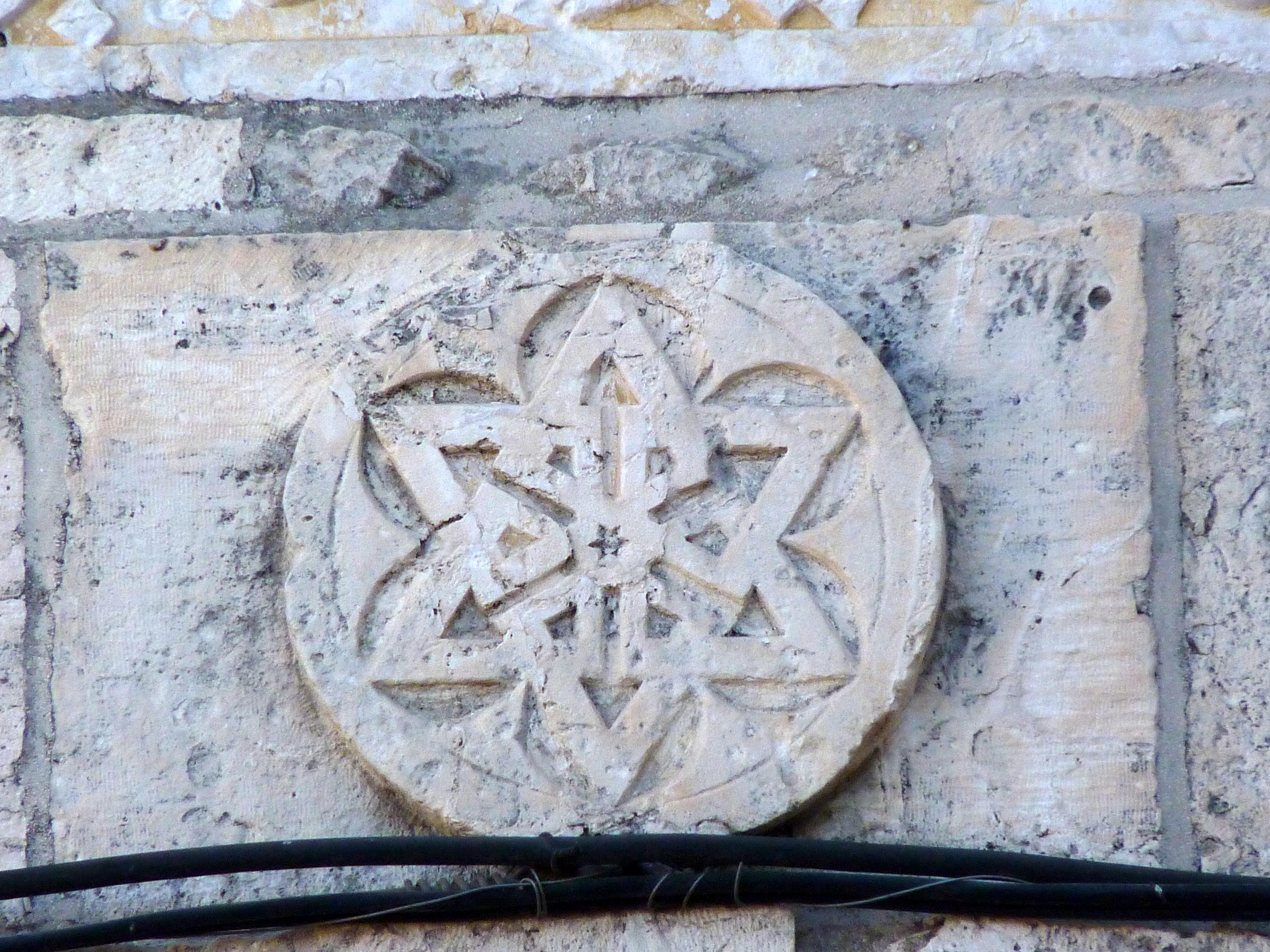 Lions Gate, Jerusalem Old City walls, Israel opposite the Police Station Thanks to Dobush for referring me to this artifact Jerusalem